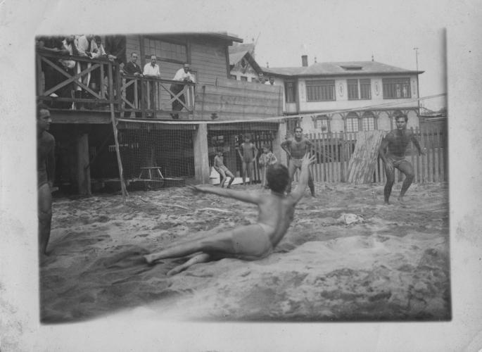 First picture takata game 1934